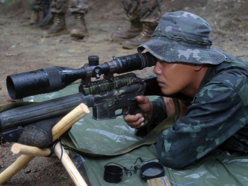 Philippine Marine Sgt. Rodelio A. Viado fires a Philippine Marine Scout Sniper Rifle during marksmanship training June 1, 2007 at the Cooperation Afloat Readiness and Training exercises 2007 in Pilas Island, Mindanao, Philippines. Photo courtesy of Lance Corporal Juan D. Alfonso of the United States Marine Corp. Taken from